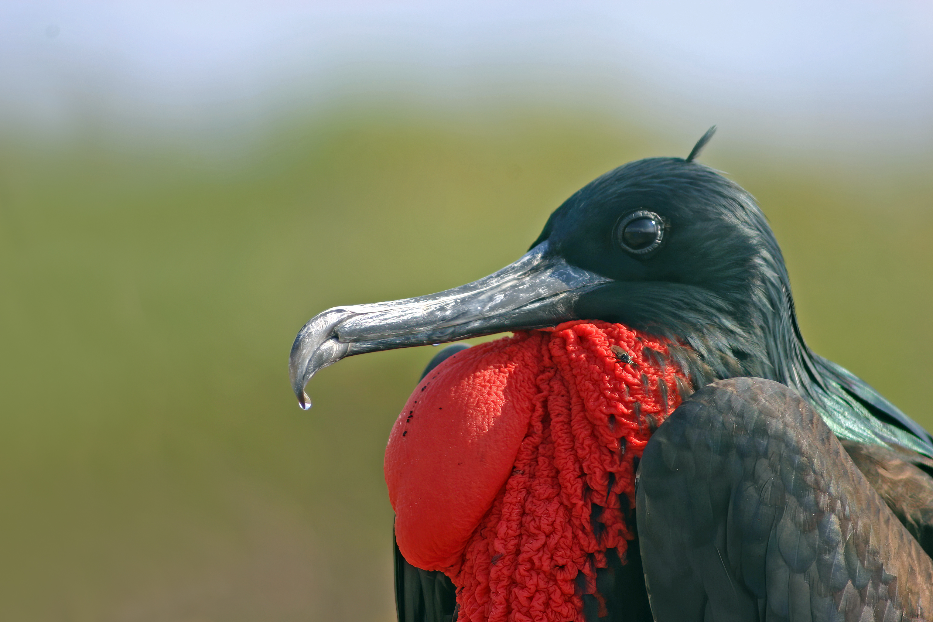 Great frigatebird (Fregata minor ridgwayi) male, showing salt water excretion on bill; Genovesa Island (El Barranco), Galapagos Islands.